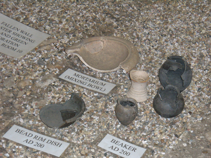 Examples of pottery found in the Roman villa at Crofton